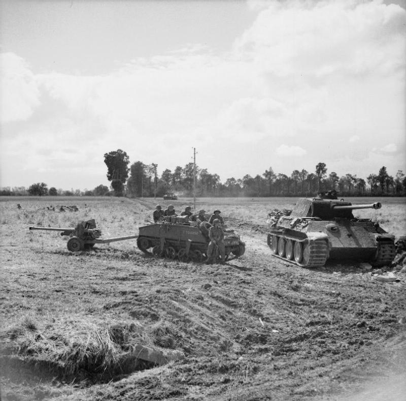 The British Army in Normandy 1944 A Loyd carrier and 6-pdr anti-tank gun of the Durham Light Infantry, 49th (West Riding) Division parked alongside a knocked-out German Panther tank during Operation 'Epsom', 27 June 1944.